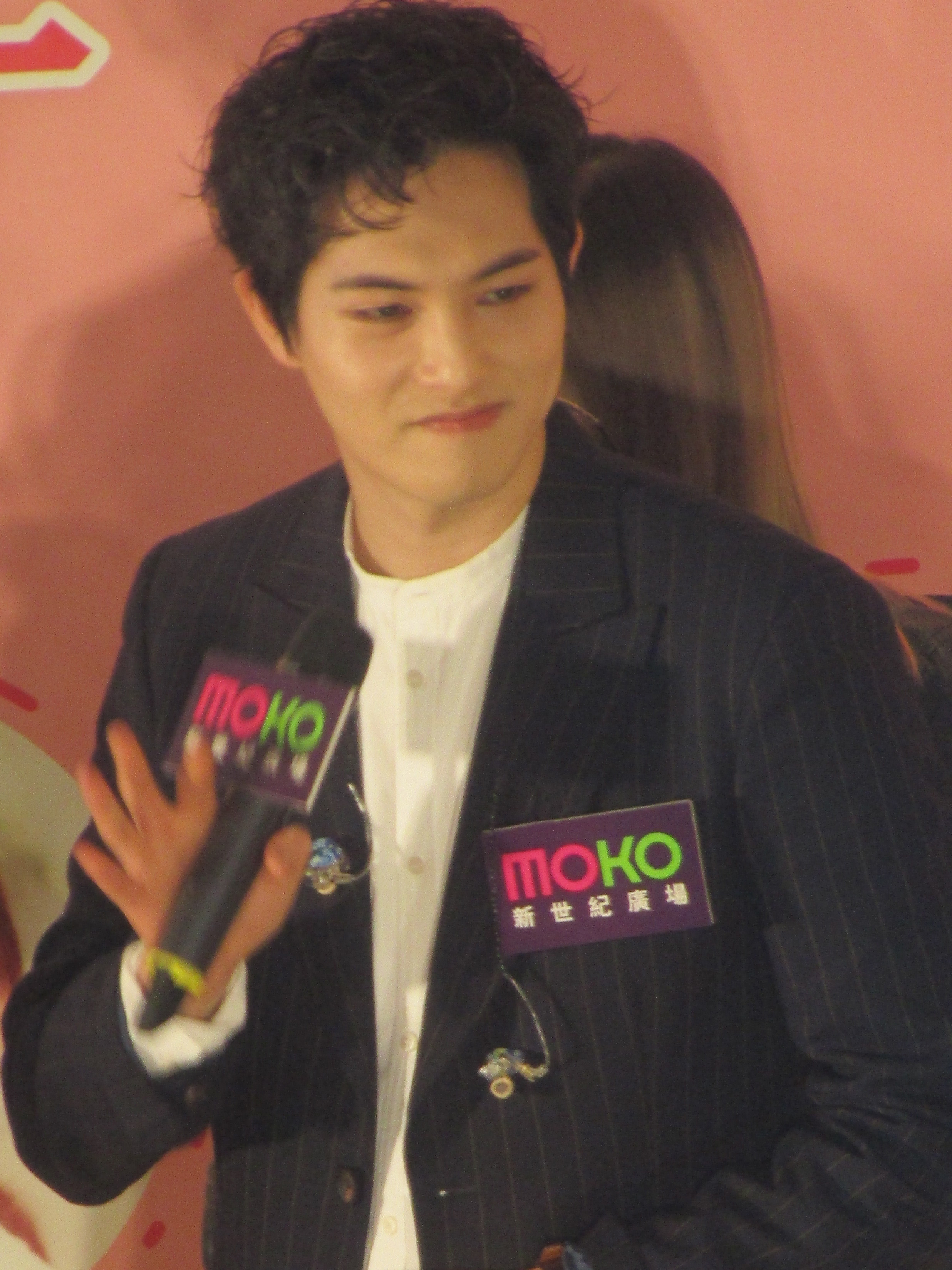 Lee Jong-hyun is in MOKO, Mong Kok